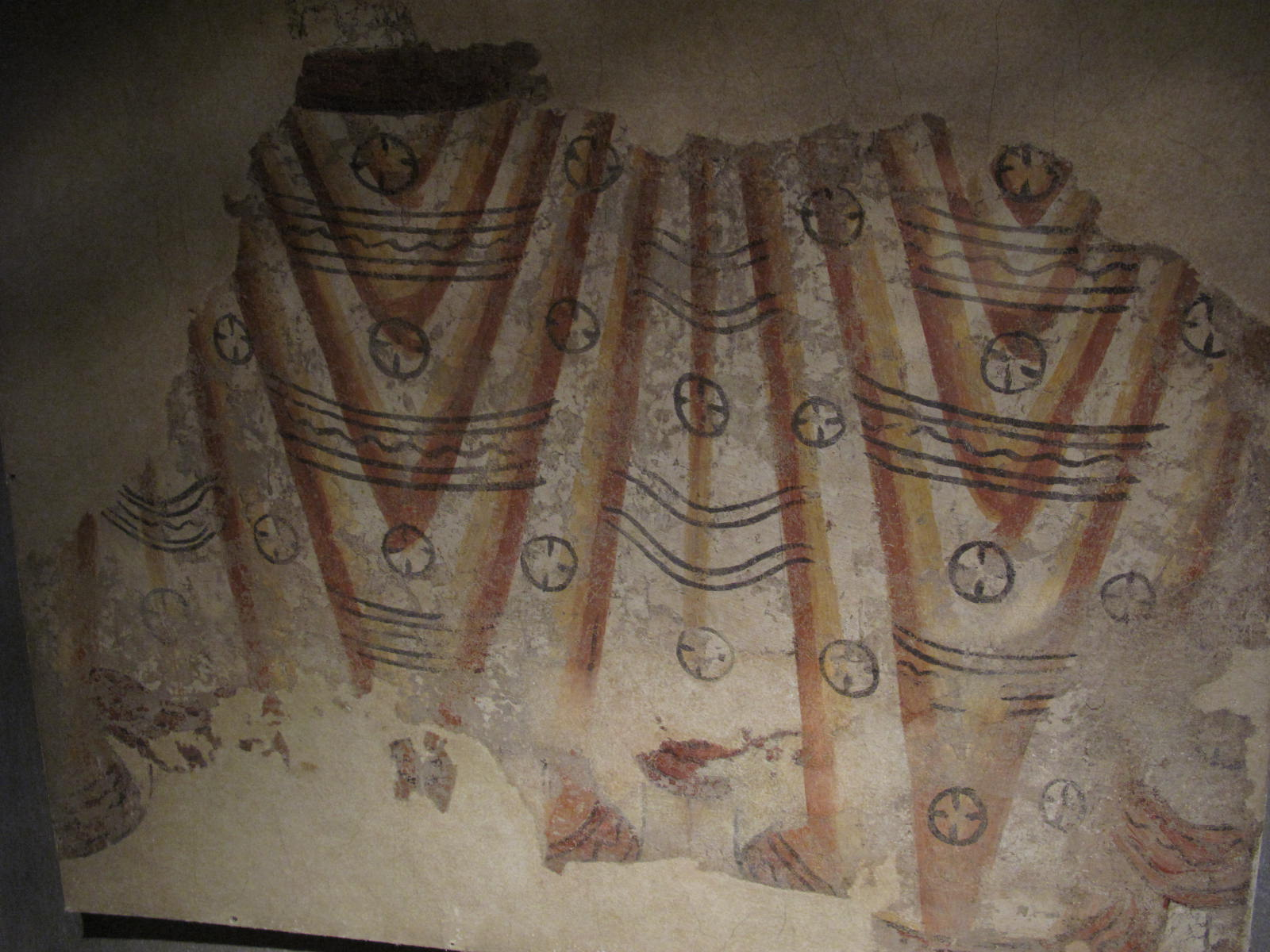 Basilica of Saint Tecla Milan. Ruin of fresco on the former right lateral apse, end 12th century